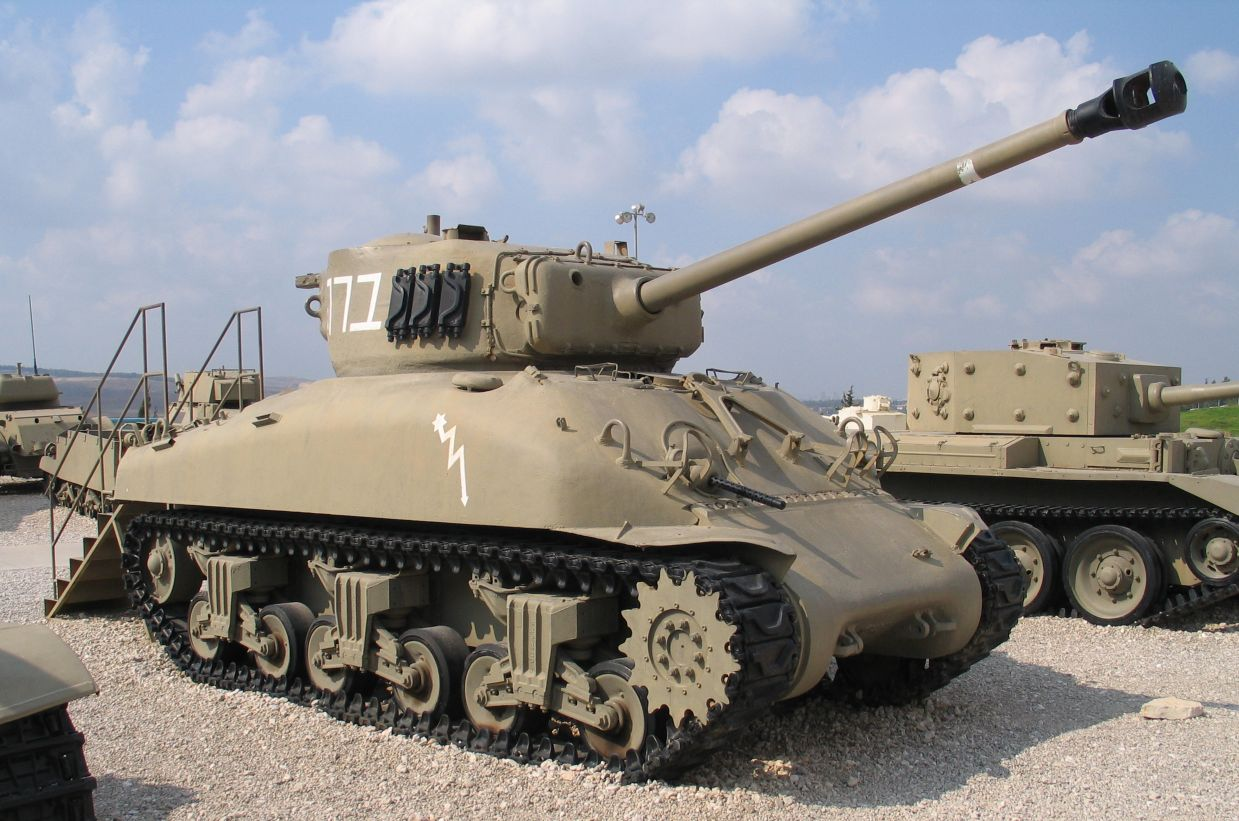 Description: M4A1(76) Sherman medium tank in Yad la-Shiryon Museum, Israel. Source: Photo by me, User:Bukvoed.